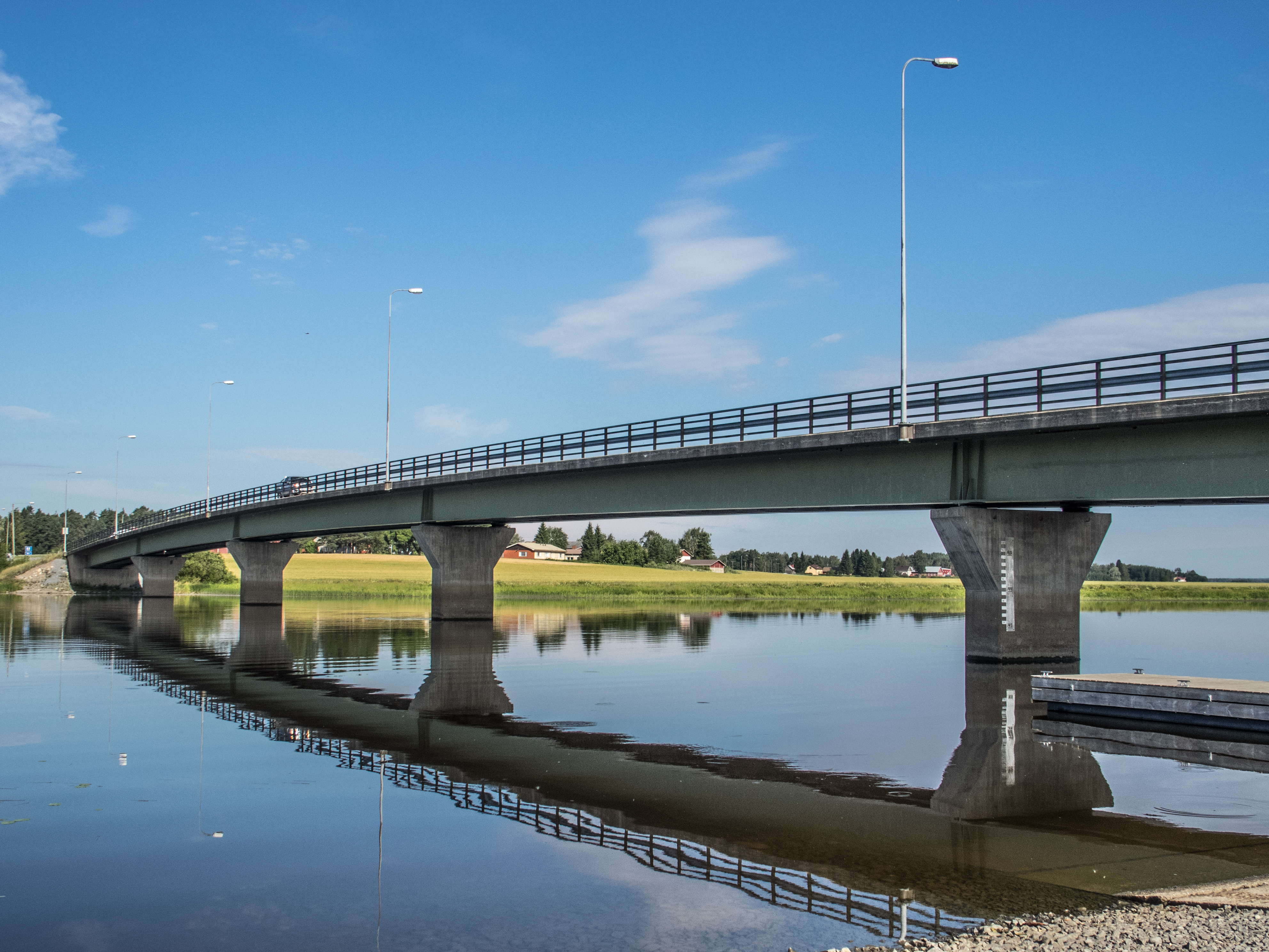 Bridge to Karhiniemi, seen from the mainland side, built in 1987.